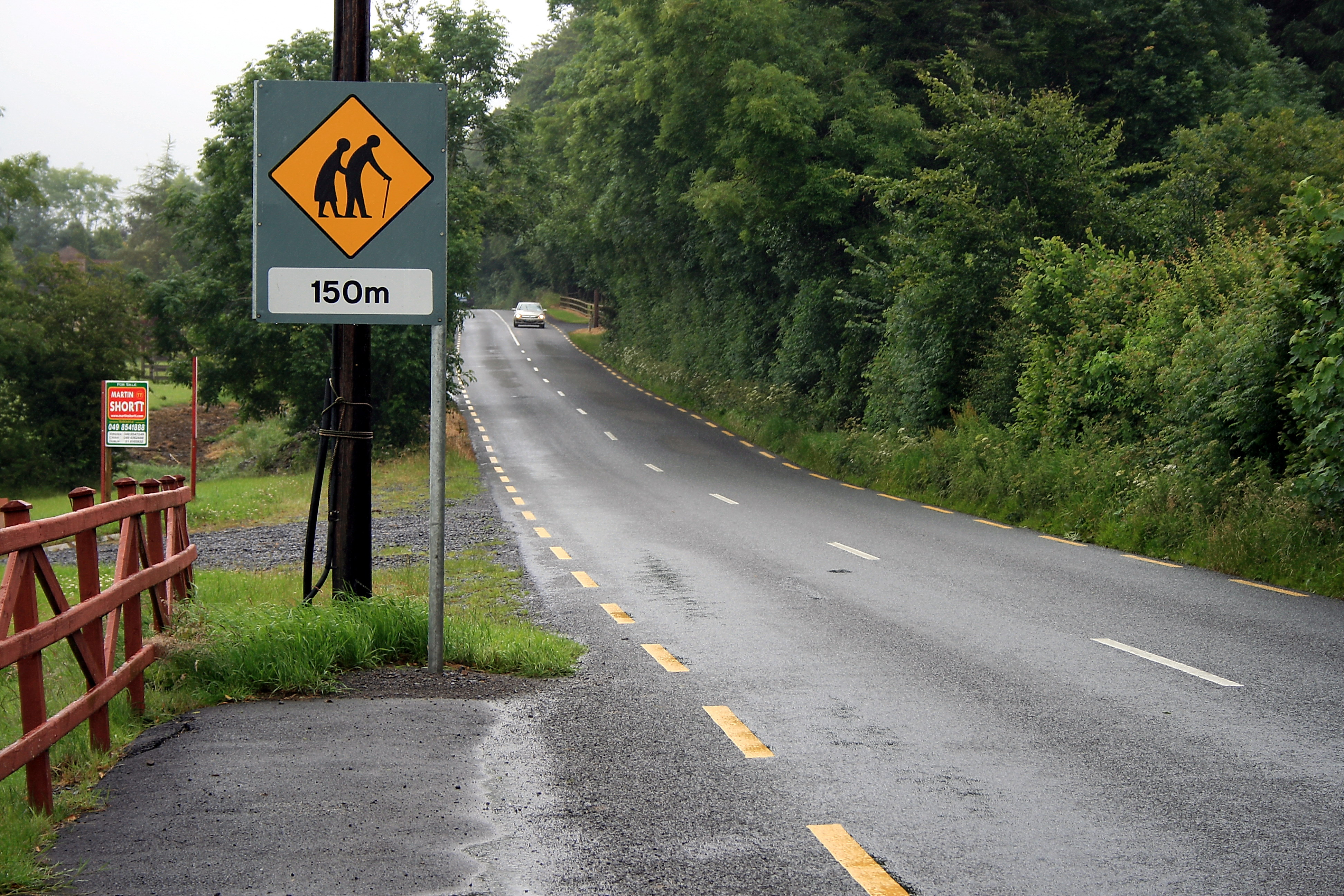 The R915 regional road near Virginia in County Cavan, Ireland